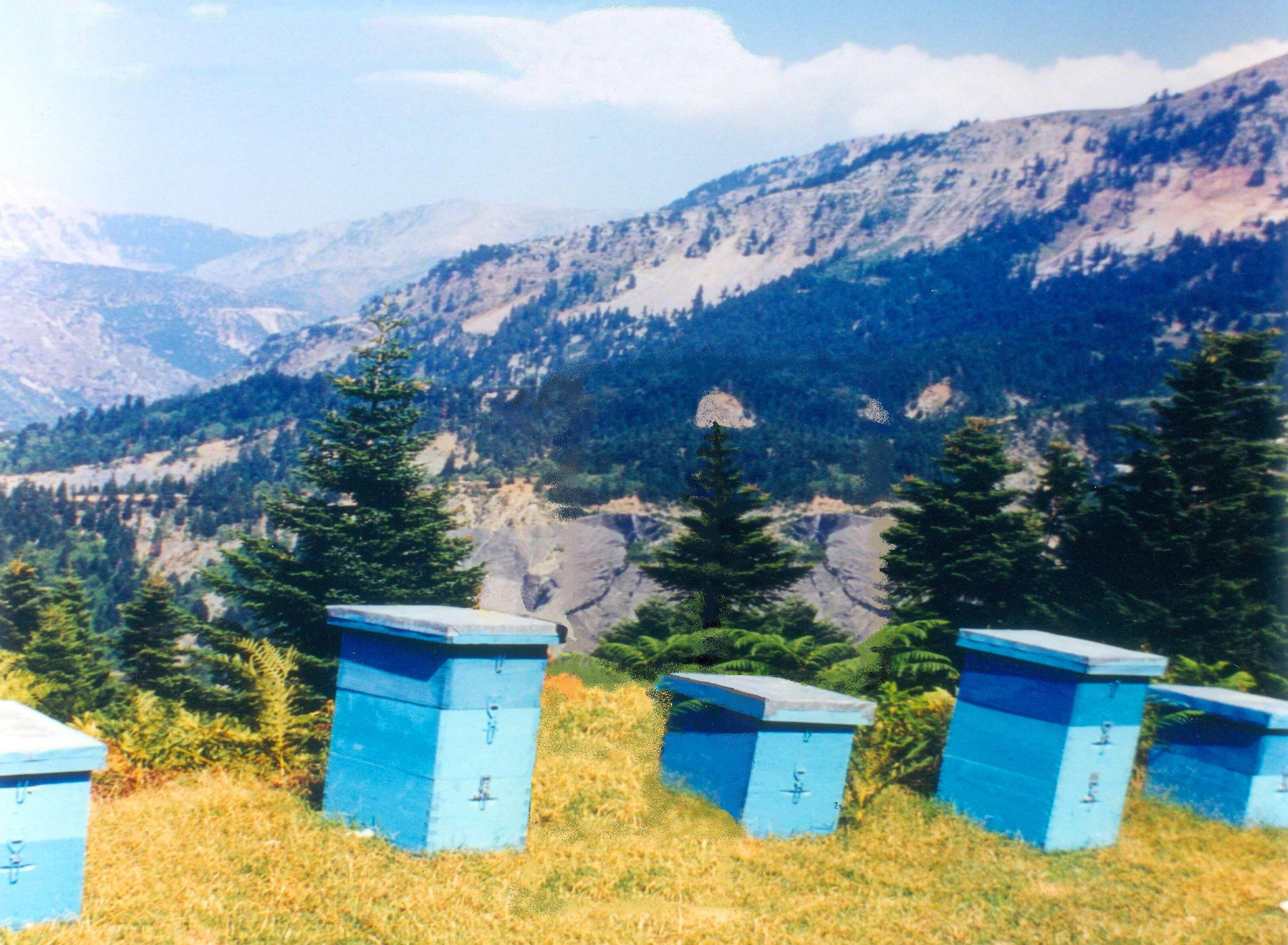 Faggos canyon, Mesounta, Arta, Greece